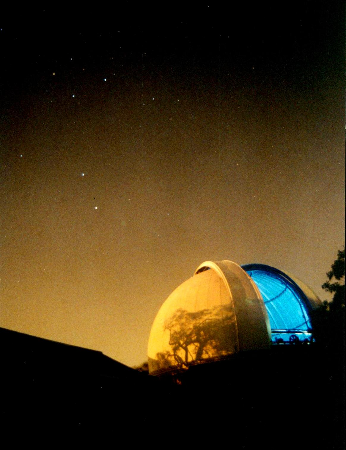 The Victoria (also McClean) Observatory in Observatory, Cape Town, houses four telescopes on the same mount. The building was designed by Sir Herbert Baker and was completed in 1896/1897. This media shows a South African Protected Site with SAHRA file reference [1].